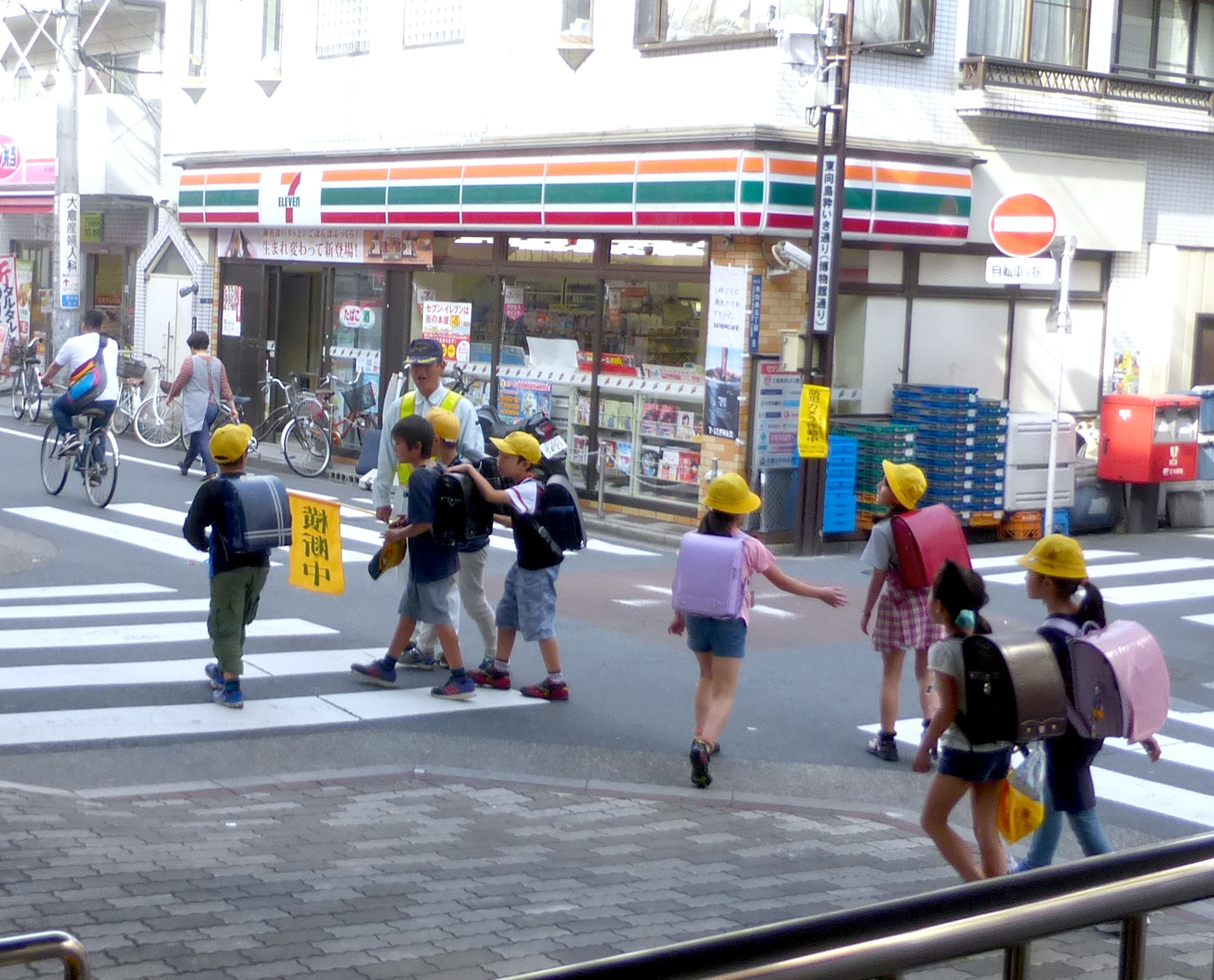 学童擁護員、東向島駅の近くに (Japanese crossing guard, near Higashi-Mukōjima Station)